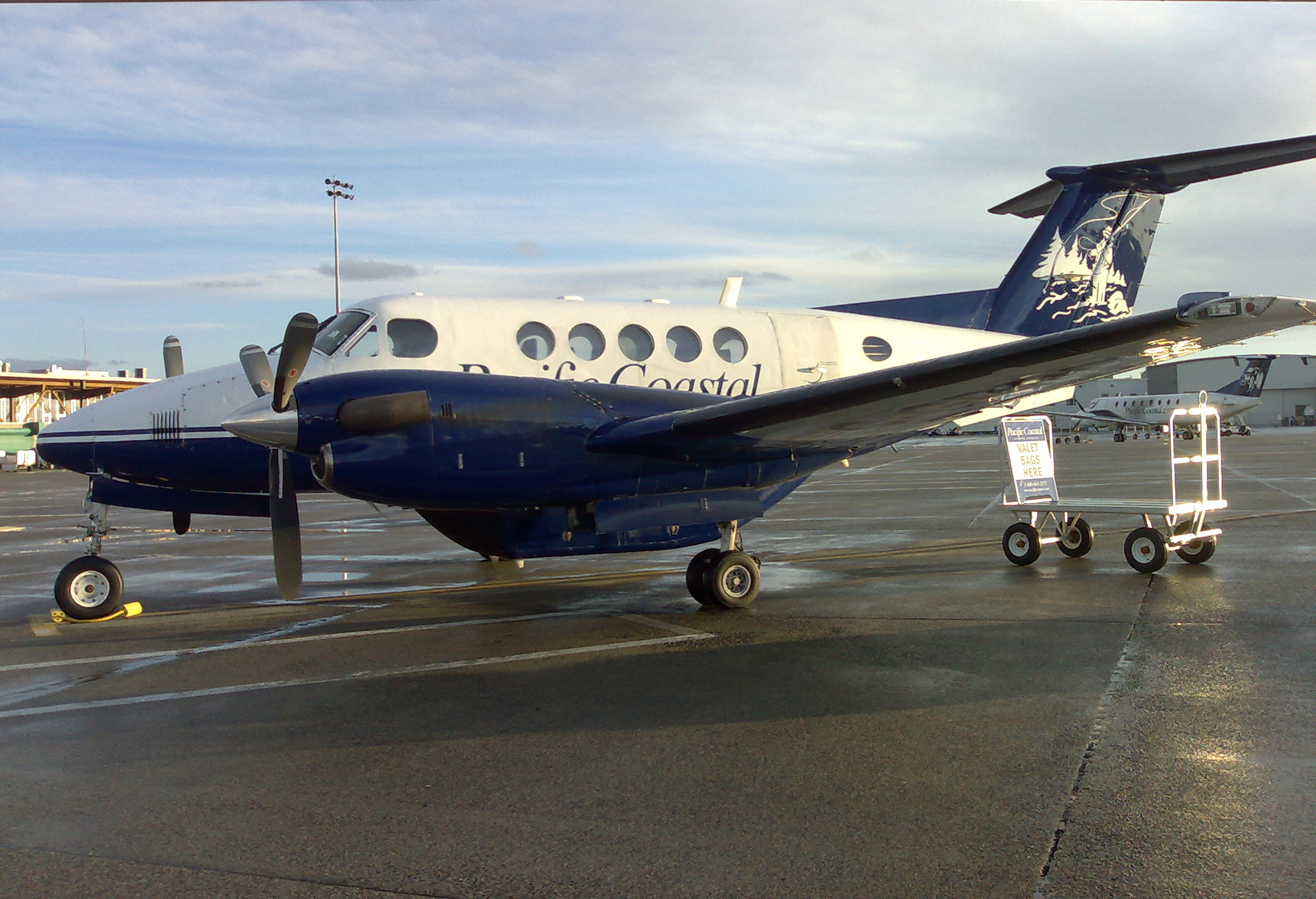 Beech Super King Air 200, Pacific Coastal Airlines, Vancouver International Airport, South Terminal